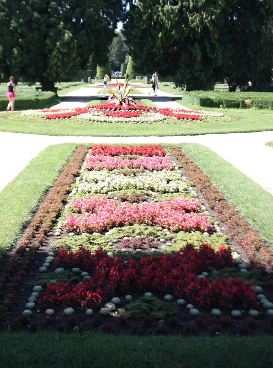 Lednice na Moravě, Czech republic, english park